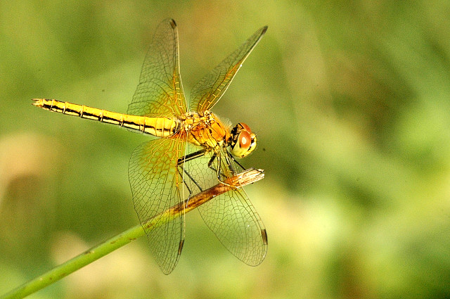 Picture taken in Commanster, Belgian High Ardennes . Species: Sympetrum flaveolum